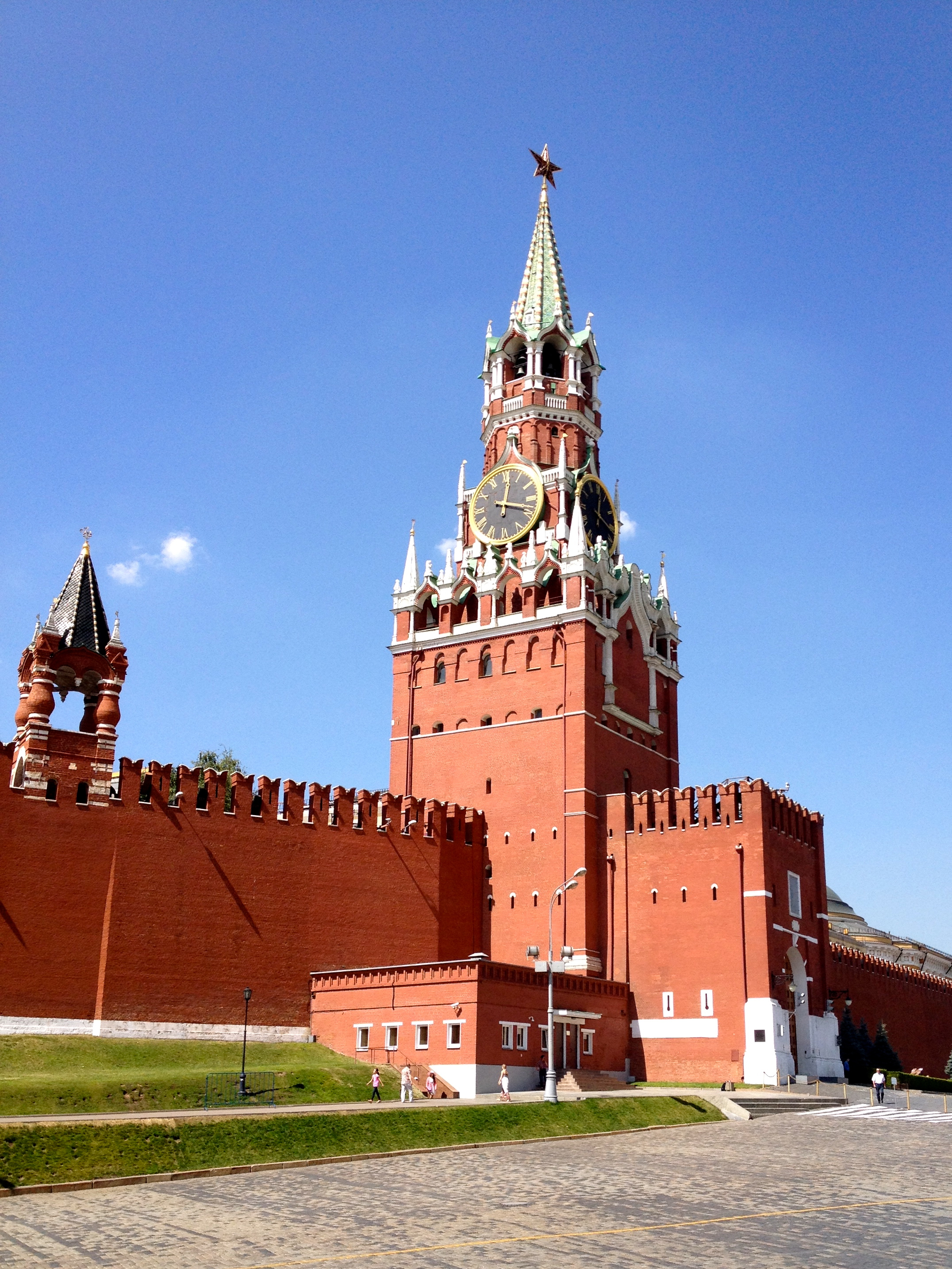 Spasskaya Tower, Kremlin